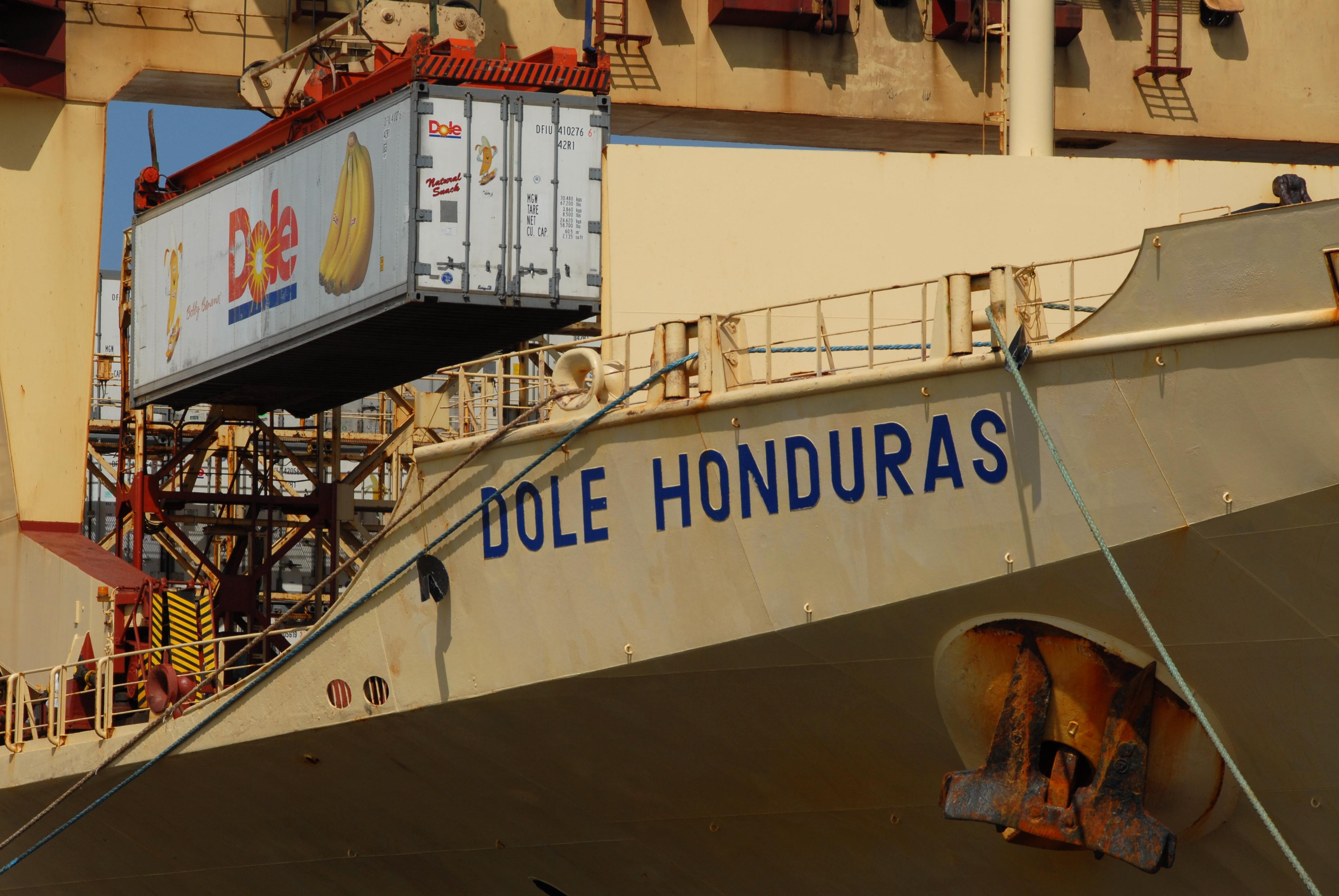 The Port of San Diego is Dole's first stop for fresh fruit that is moving into the U.S. from South America. The Port receives approximately 95,000 twenty-foot containers of Dole fruit each year. (Photo Courtesy: Dale Frost)